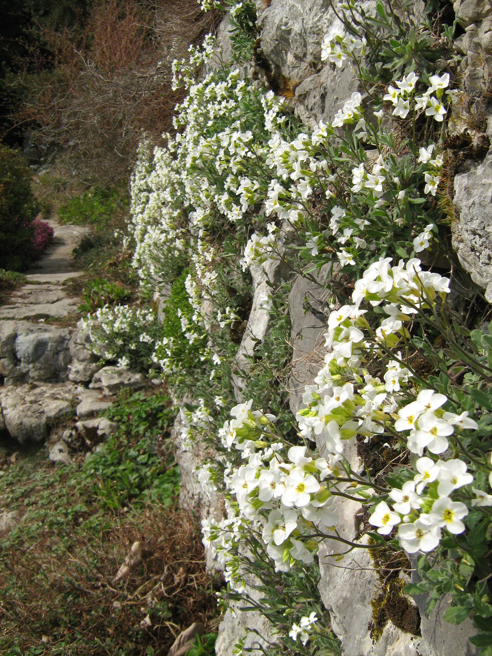 Arabis alpina in the botanic garden of Berne